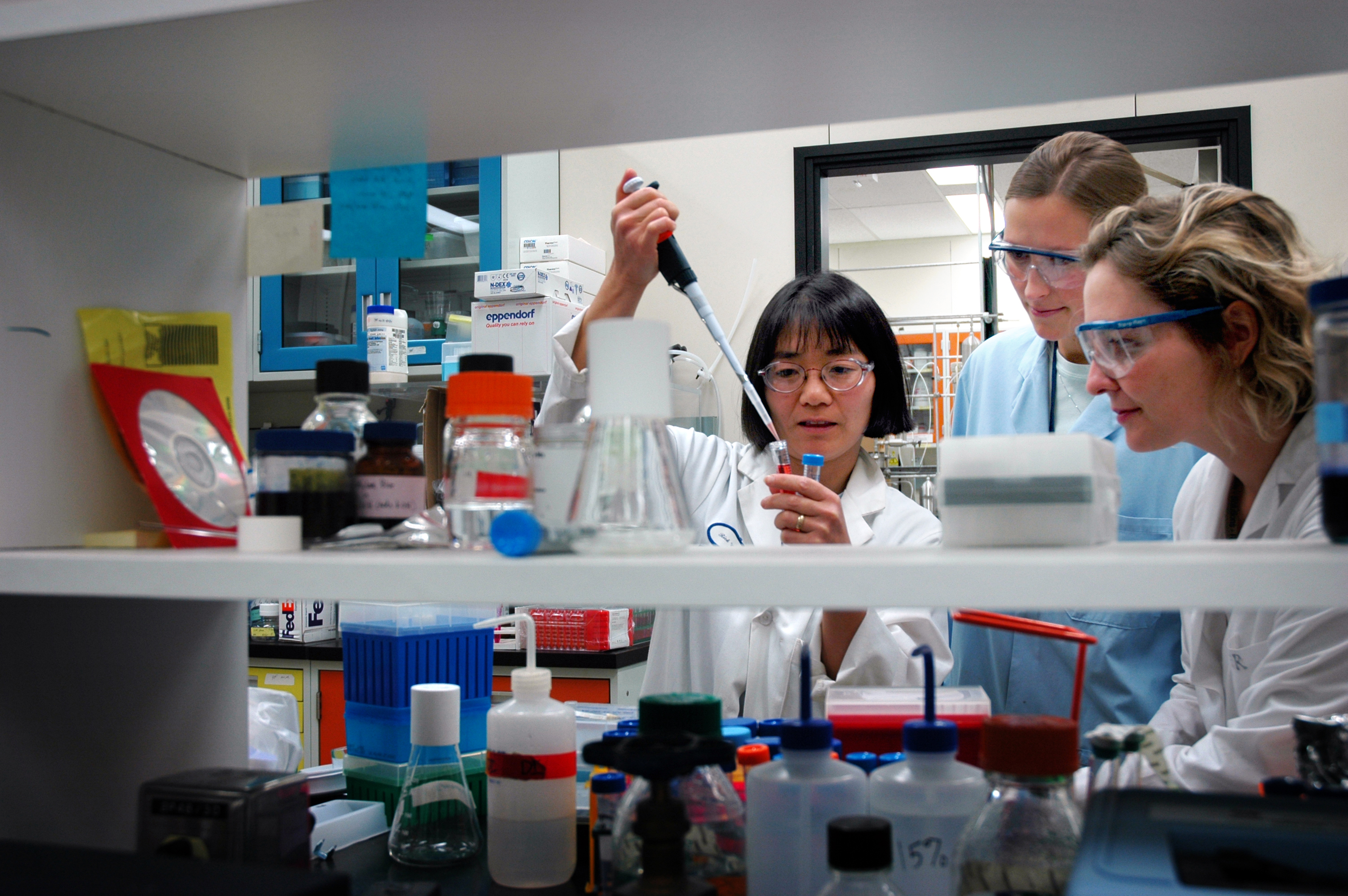 INL scientist Yoshiko Fujita works with two colleagues.